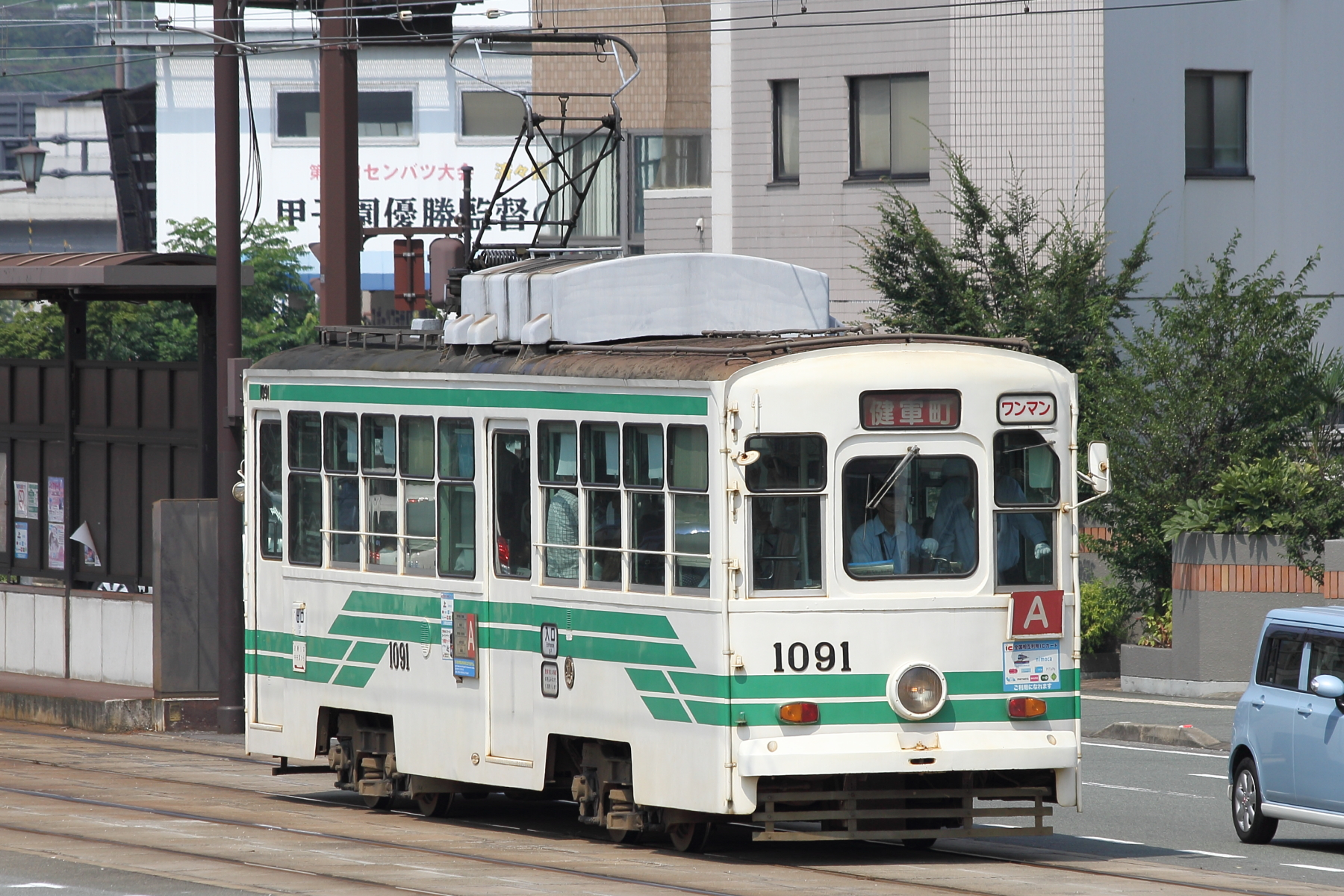 Kumamoto City Tram No.1091